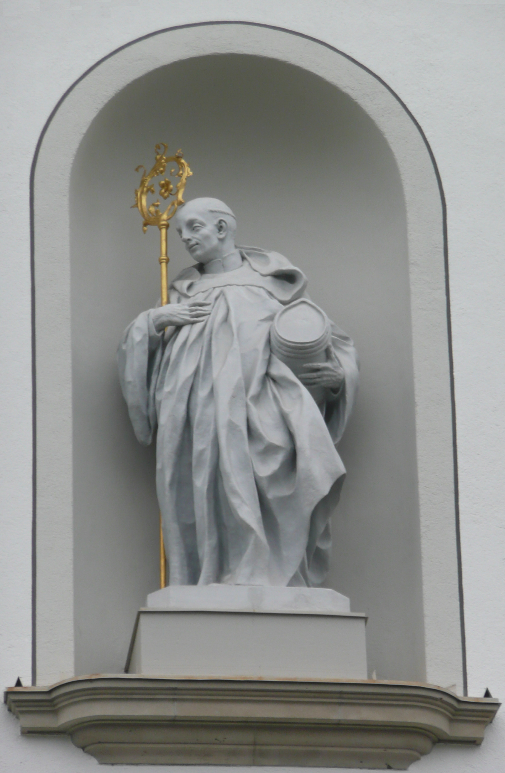 Statue of Saint Otmar on the Wall of the Abbey of St. Gall